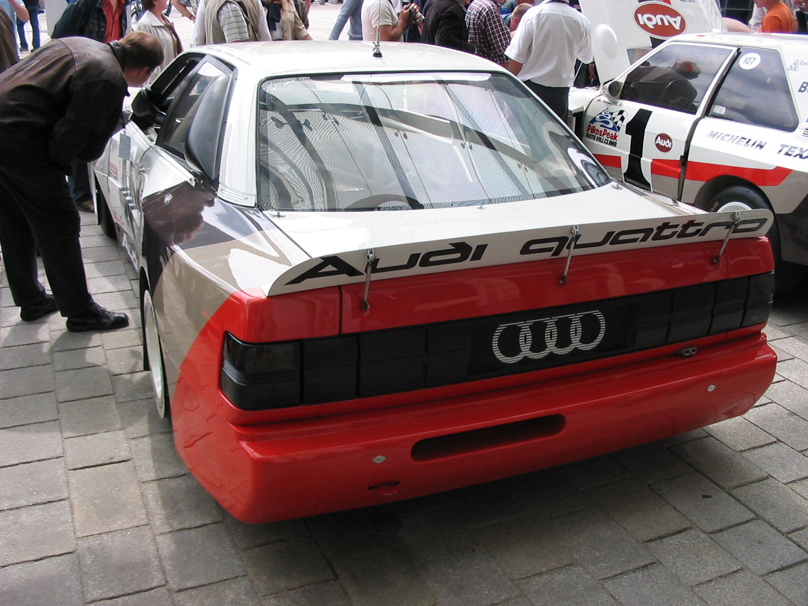 Audi 200 quattro Trans-Am at Audi Forum in Ingolstadt, Germany.